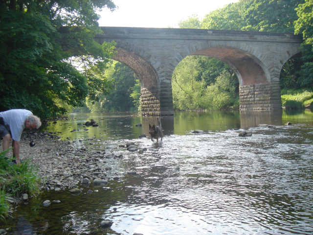 River Wharfe at Linton in West Yorkshire